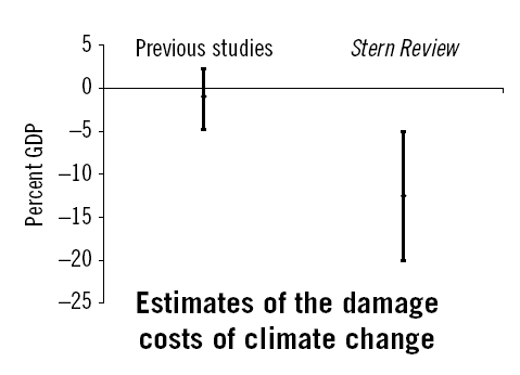 Adapted from a portion of Figure 1 in Tol and Yohe (2006) "A Review of the Stern Review" World Economics 7(4): 233-50. I really think the y-axis should be inverted. James S. 17:23, 6 April 2007 (UTC) History of Image:Edccc.jpg 2007-05-10T15:50:35Z Cydebot (Talk